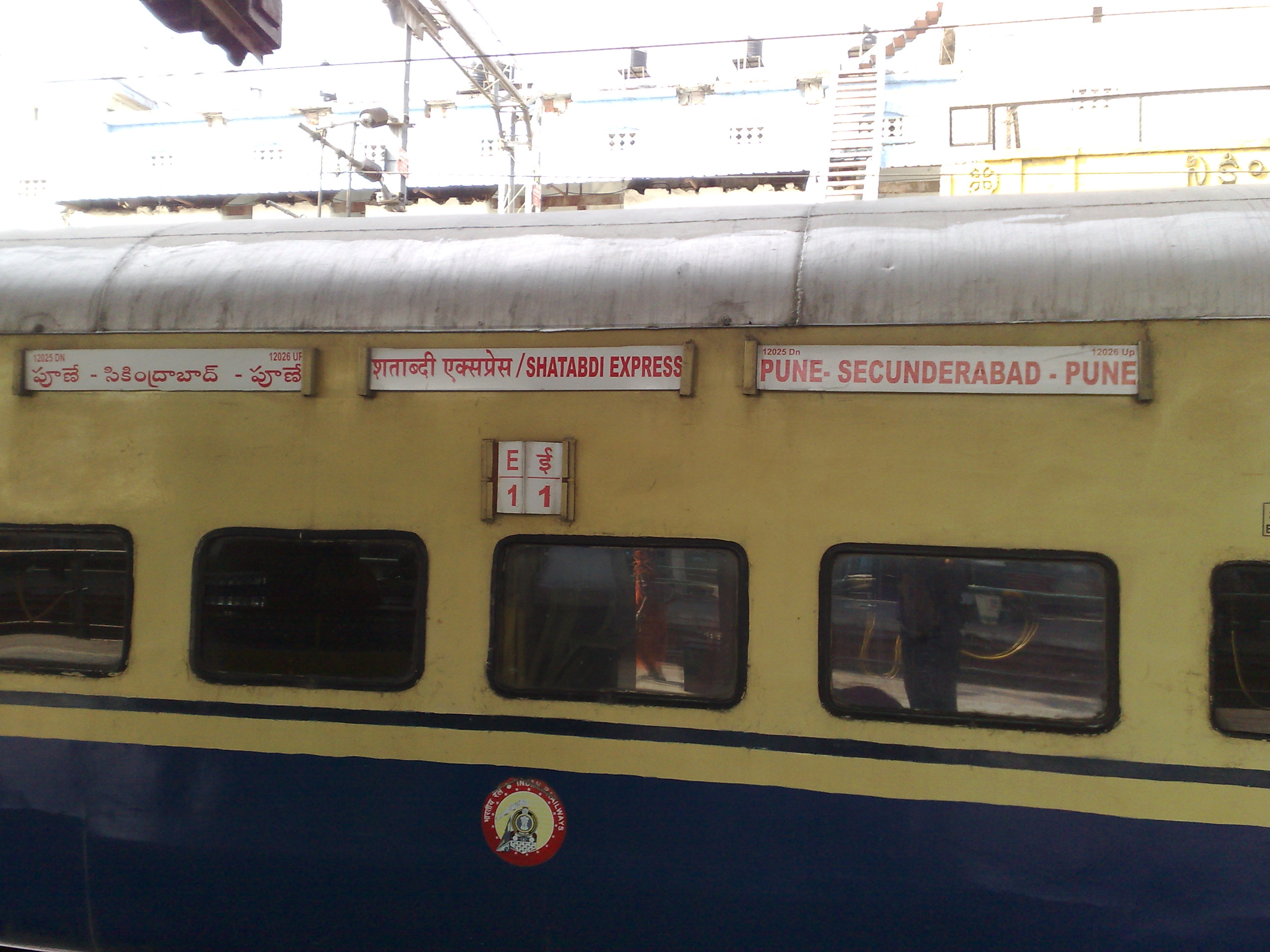 Coach E1 of 12026 Shatabdi Express